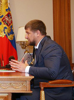 Ramzan Kadyrov, President of Chechnya